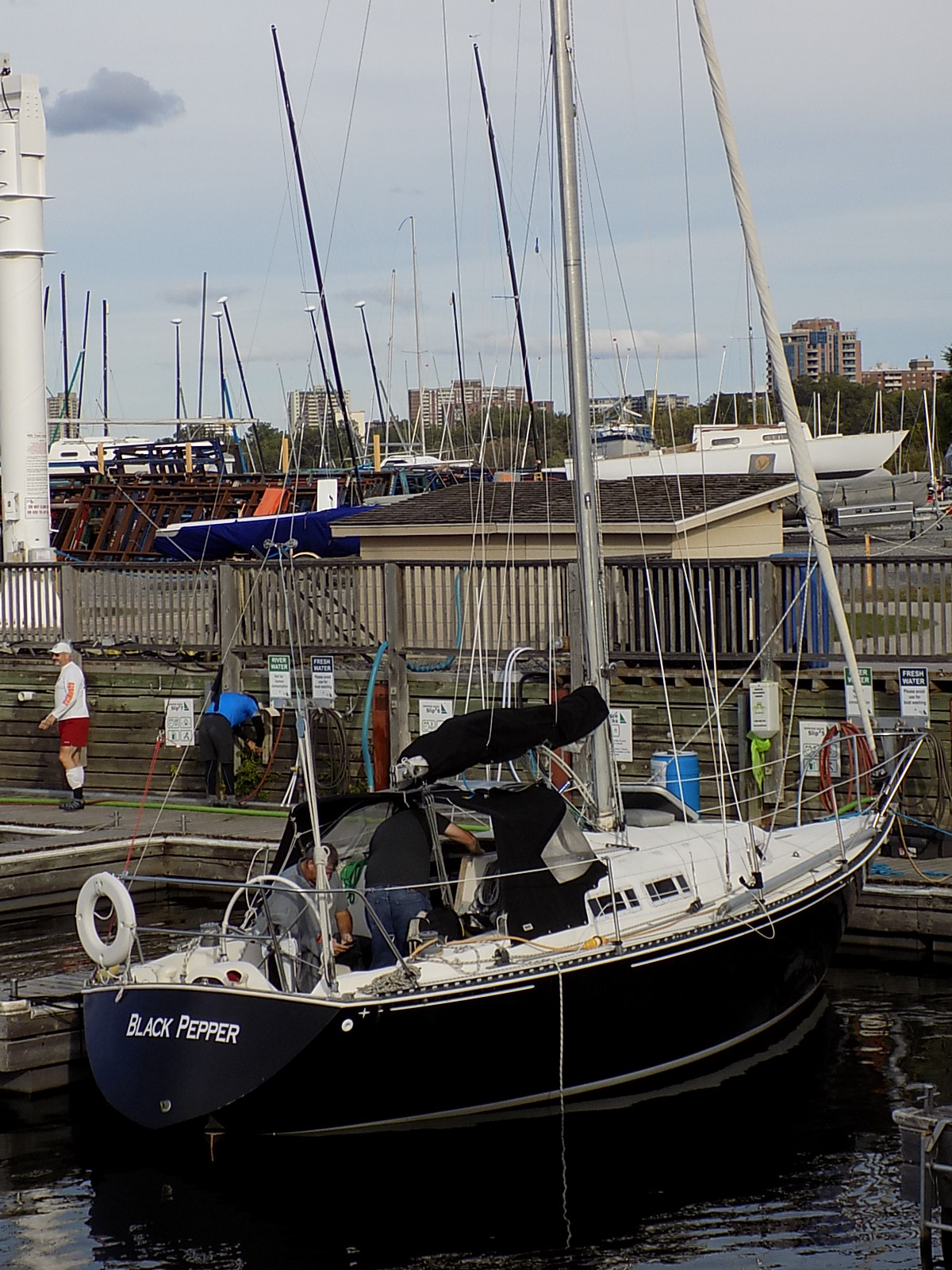 A C&C 29 Mark I sailboat named Black Pepper.